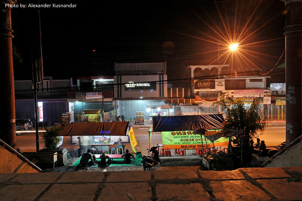 Pasar Kroya pada malam hari